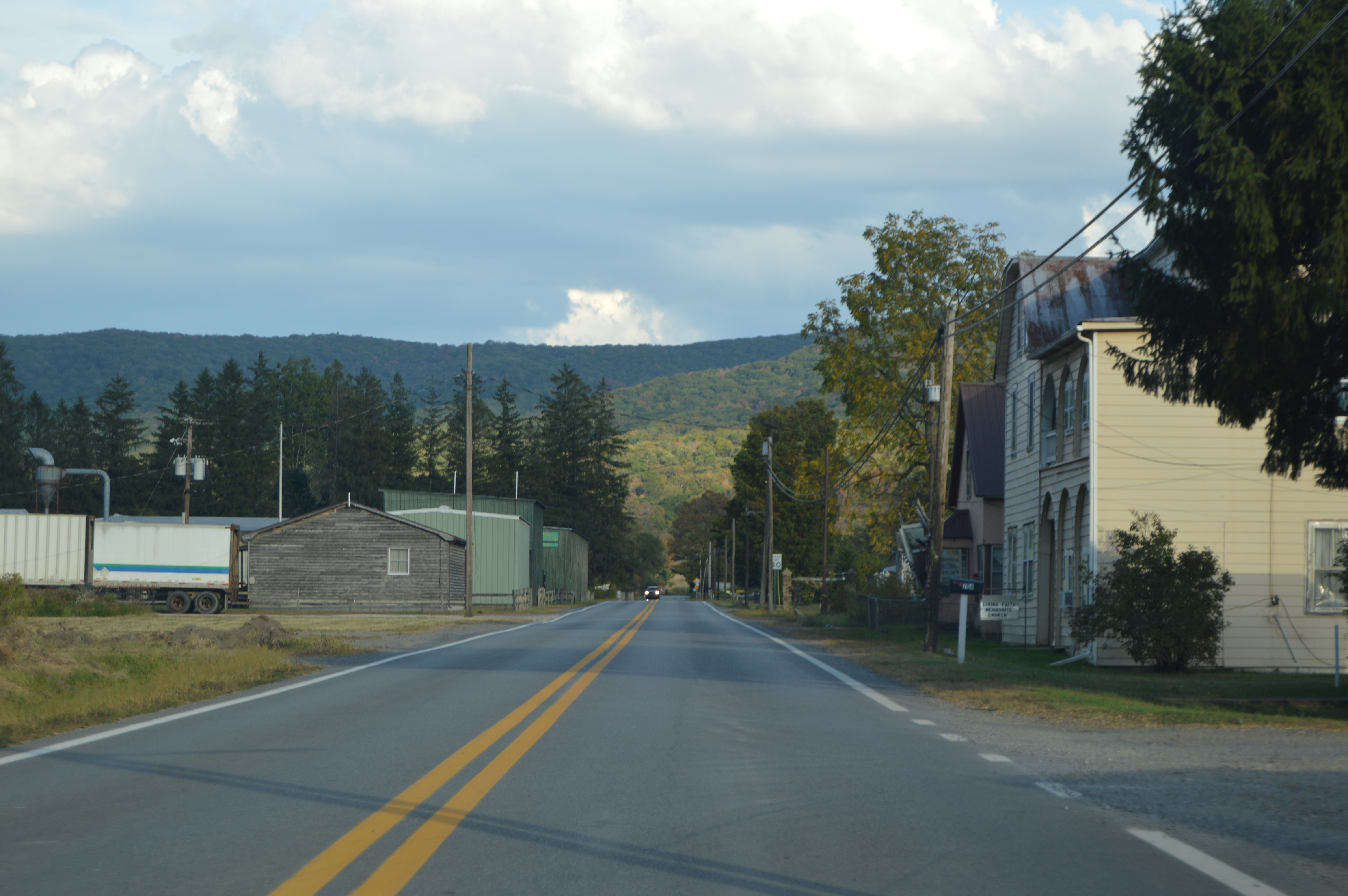 Buildings on the old Staunton-Parkersville Turnpike (U.S. Route 250/West Virginia Route 92) at Bartow in Pocahontas County, West Virginia, United States.